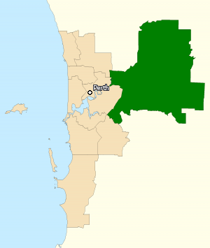 Incorporates or developed using Administrative Boundaries ©PSMA Australia Limited licensed by the Commonwealth of Australia under Creative Commons Attribution 4.0 International licence (CC BY 4.0). Derived from State and Territory Boundaries from the Australian Bureau of Statistics under Creative Commons Attribution 2.5 Australia license (CC BY 2.5 AU)